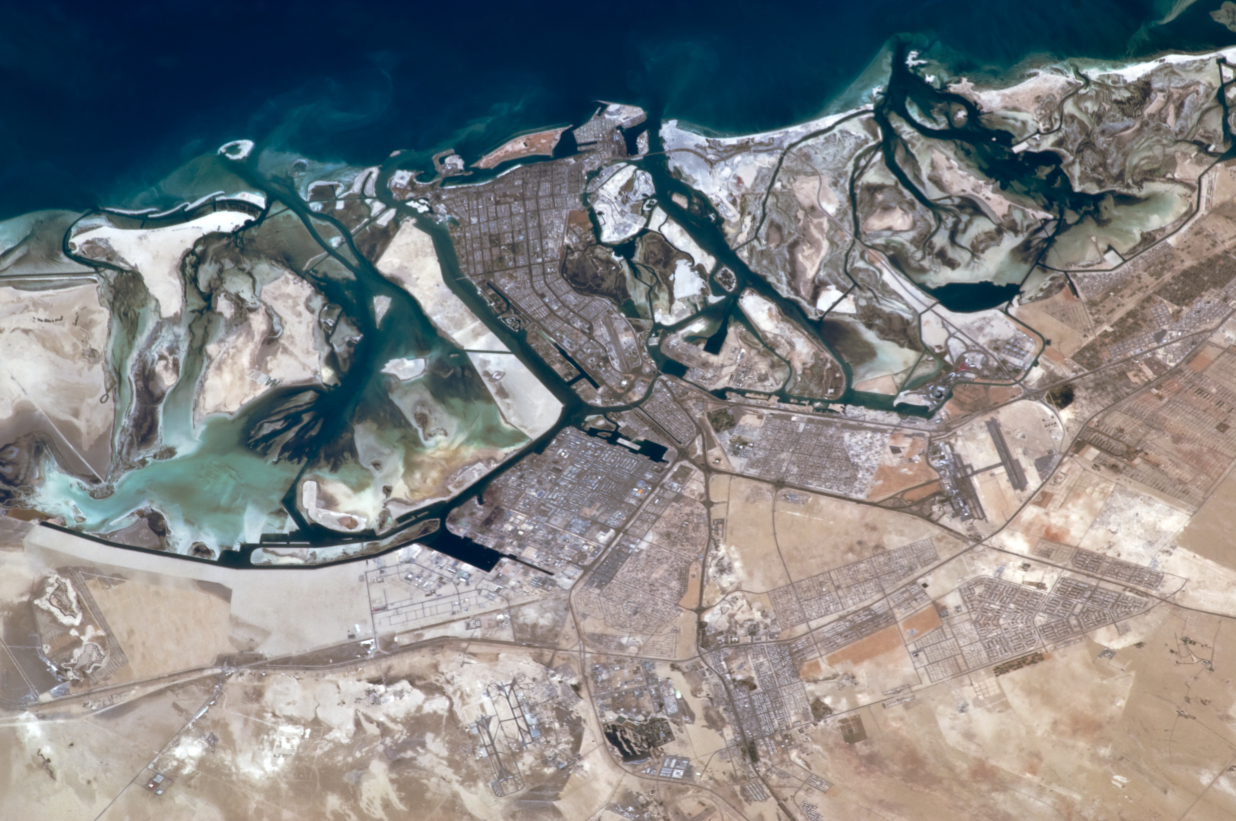 Astronaut Photo of Abu Dhabi, United Arab Emirates taken from the International Space Station (ISS) during Expedition 27 on May 6, 2011.